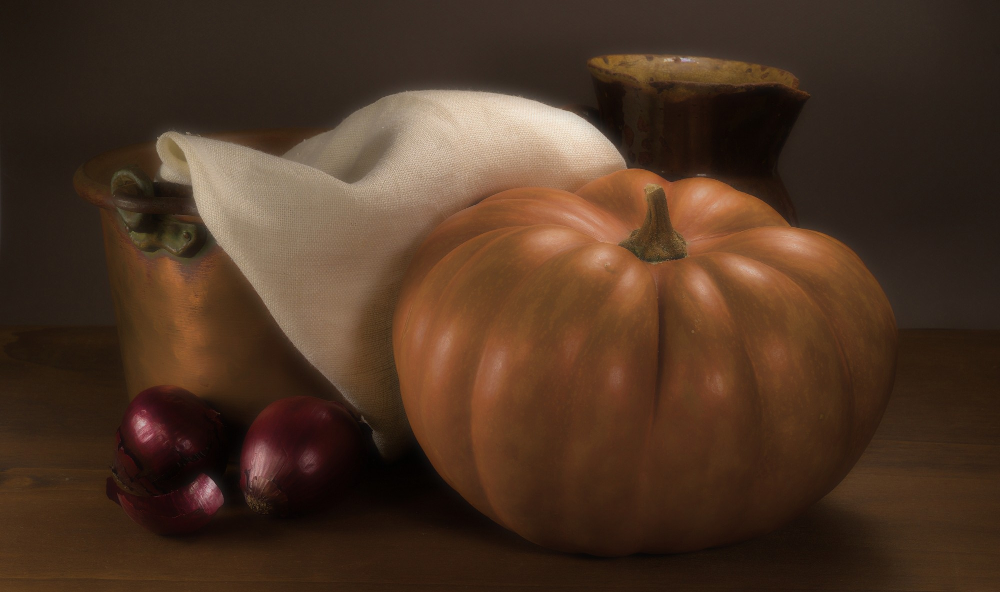 Still life with pumpkin, onions, a copper pot, a cotton rug, an earthenware jug.